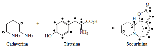 Securinine biosynthesis